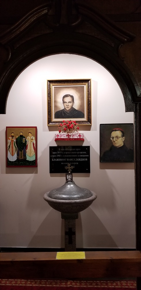 Interior of St. Louis Cathedral in Plovdiv: chapel of the blessed Pavel Djidjov